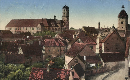 Panorama of Dillingen (Dillingen an der Donau), Bavaria, with the prince-bishop's palace on the top left. Little had changed from the late 18th century when Dillingen was still the residenz (capital city) of the prince-bishops of Augsburg. Postcard issued in the 1900s.